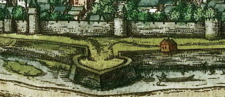 View of Wyck, part of the city of Maastricht, Netherlands, around 1570. Detail of a city panorama by Simon de Bellomonte, ca. 1570, published in 1575 in Part 2 of Braun & Hogenberg's atlas of world cities Civitates orbis terrarum.